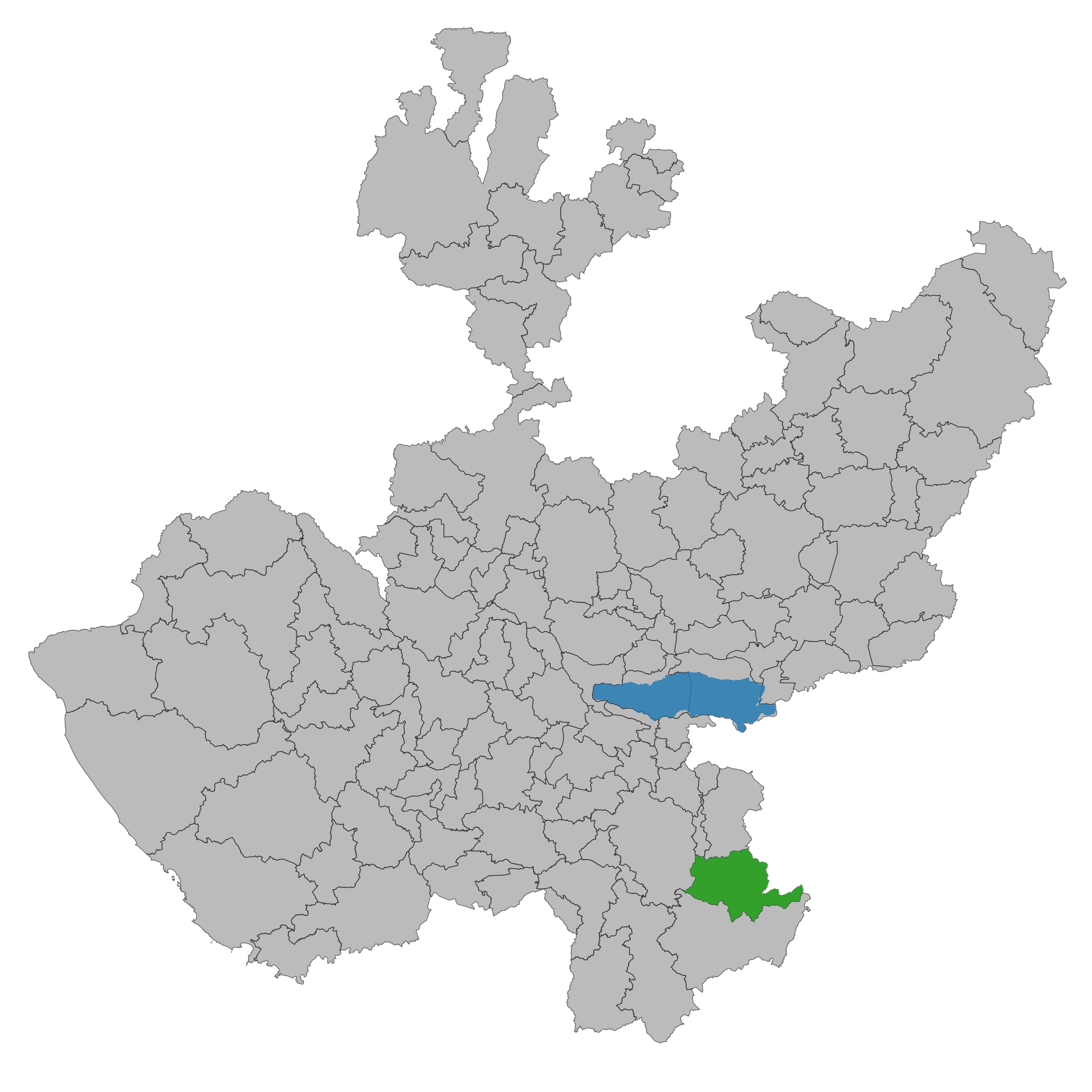 Municipality of Jalisco. Prepared with the software QGIS version 2.8.2 Wien & with information of SCINCE 2010 version 05/2013